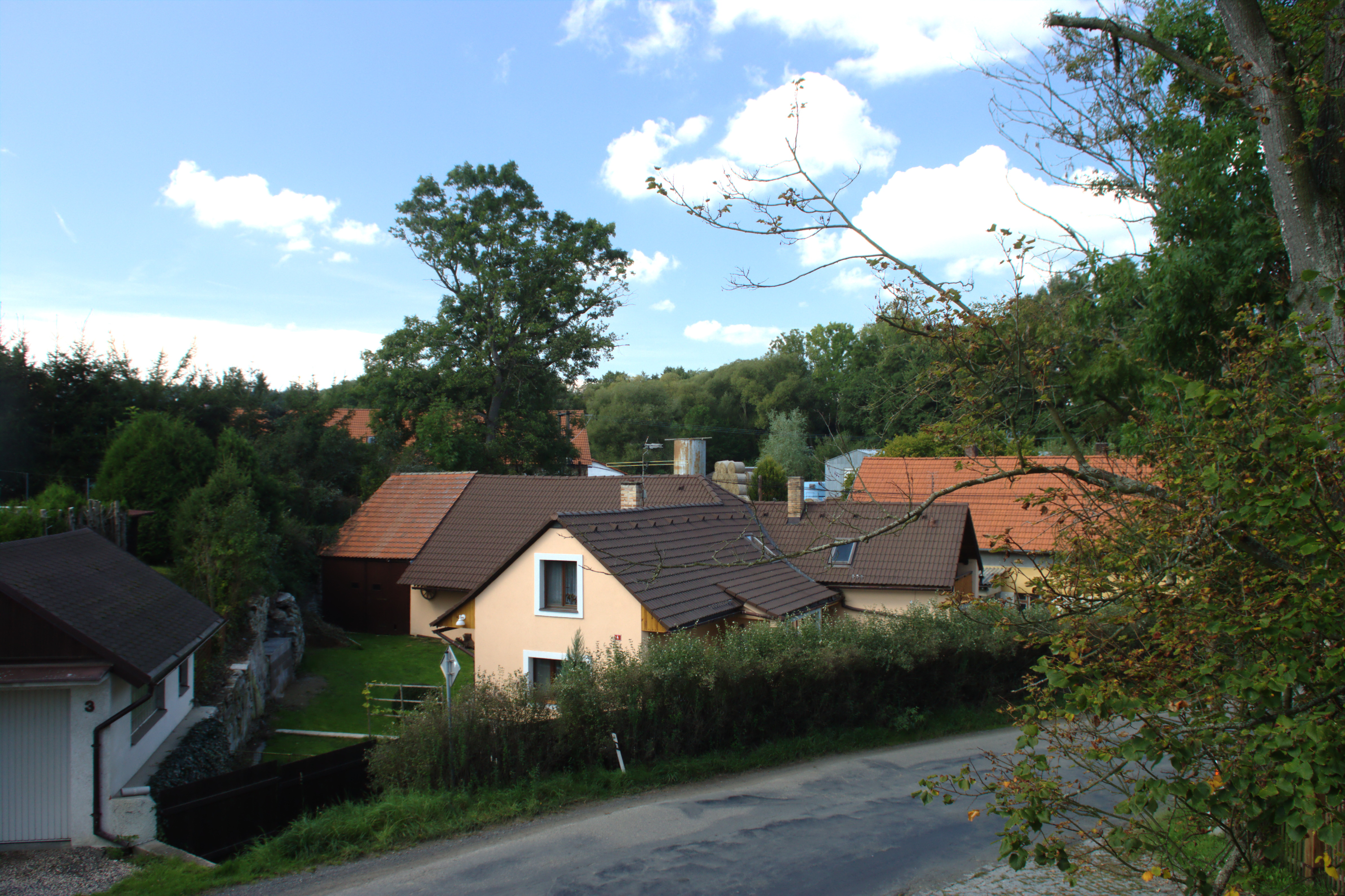 Main road in the village of Všetice